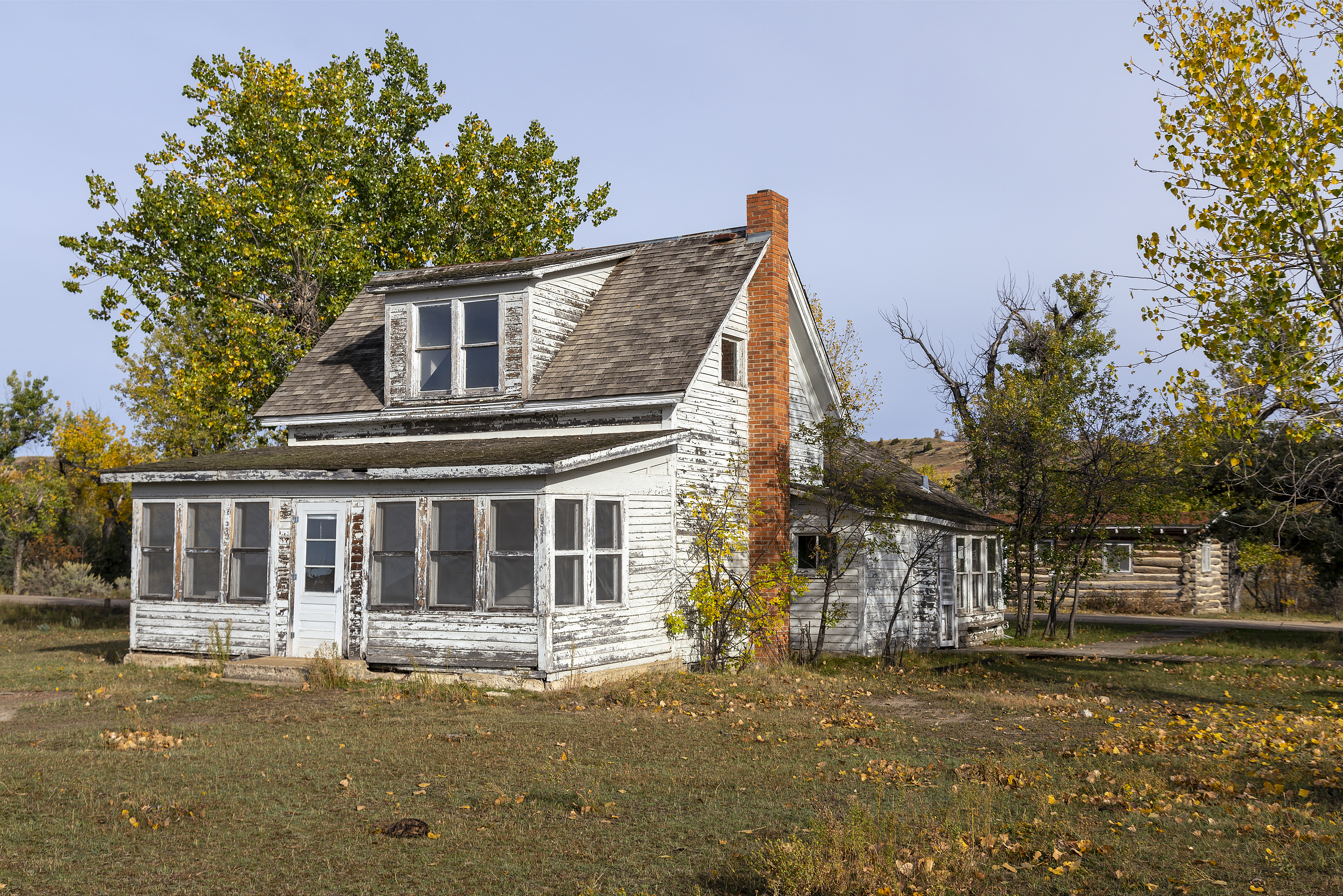 The Peaceful Valley ranch house in the south unit of Theodore Roosevelt National Park, North Dakota, USA